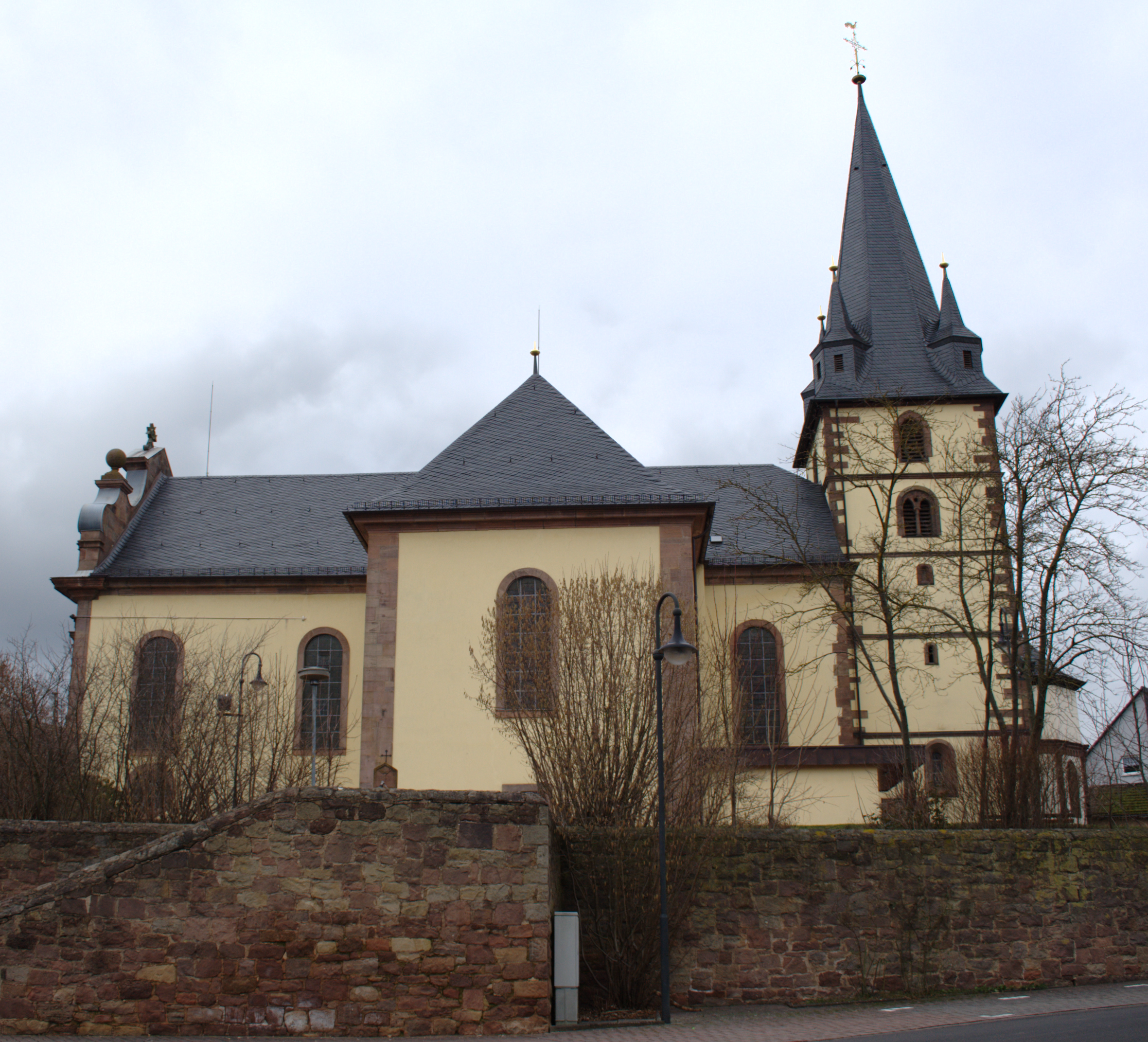 Catholic Church St. Georg (side) in Grossenlueder / Hesse / Germany